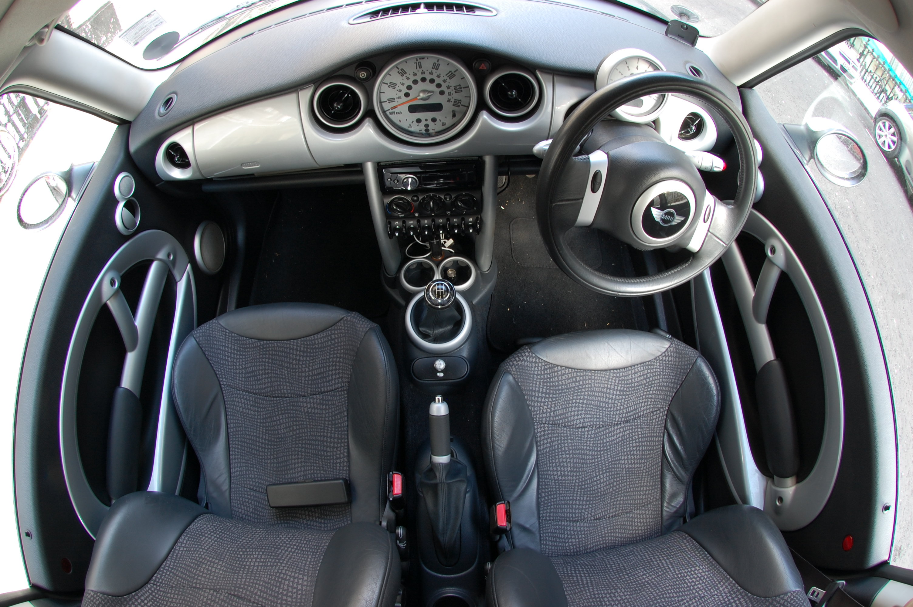 Fisheye Mini Interior